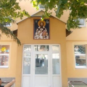 Primary school "Sveti Sava" Žirovnica